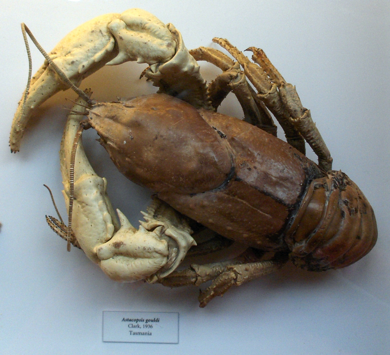 A dry specimen of Astacopsis gouldi, the Tasmanian giant freshwater crayfish, on display in the Oxford University Museum of Natural History.